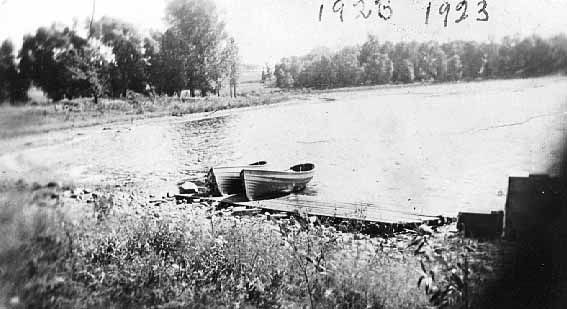 Crystal Lake in Burnsville MN. The boats are owned by a resort owner.